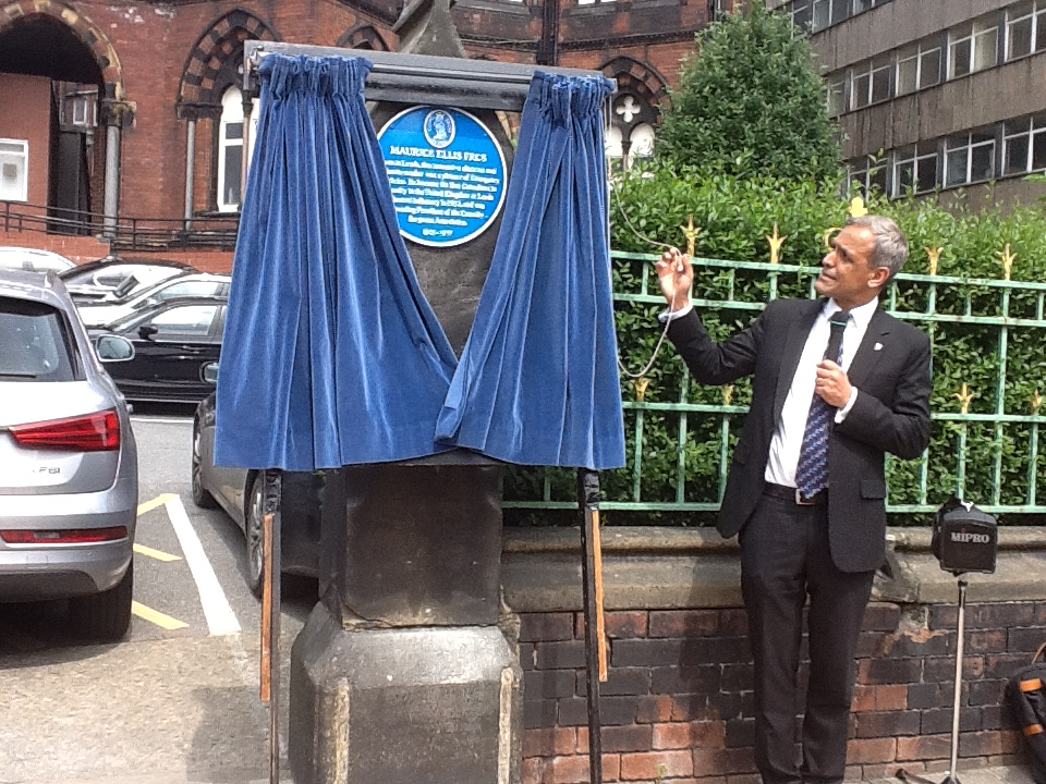 Leeds Civic Trust Blue zPlaque